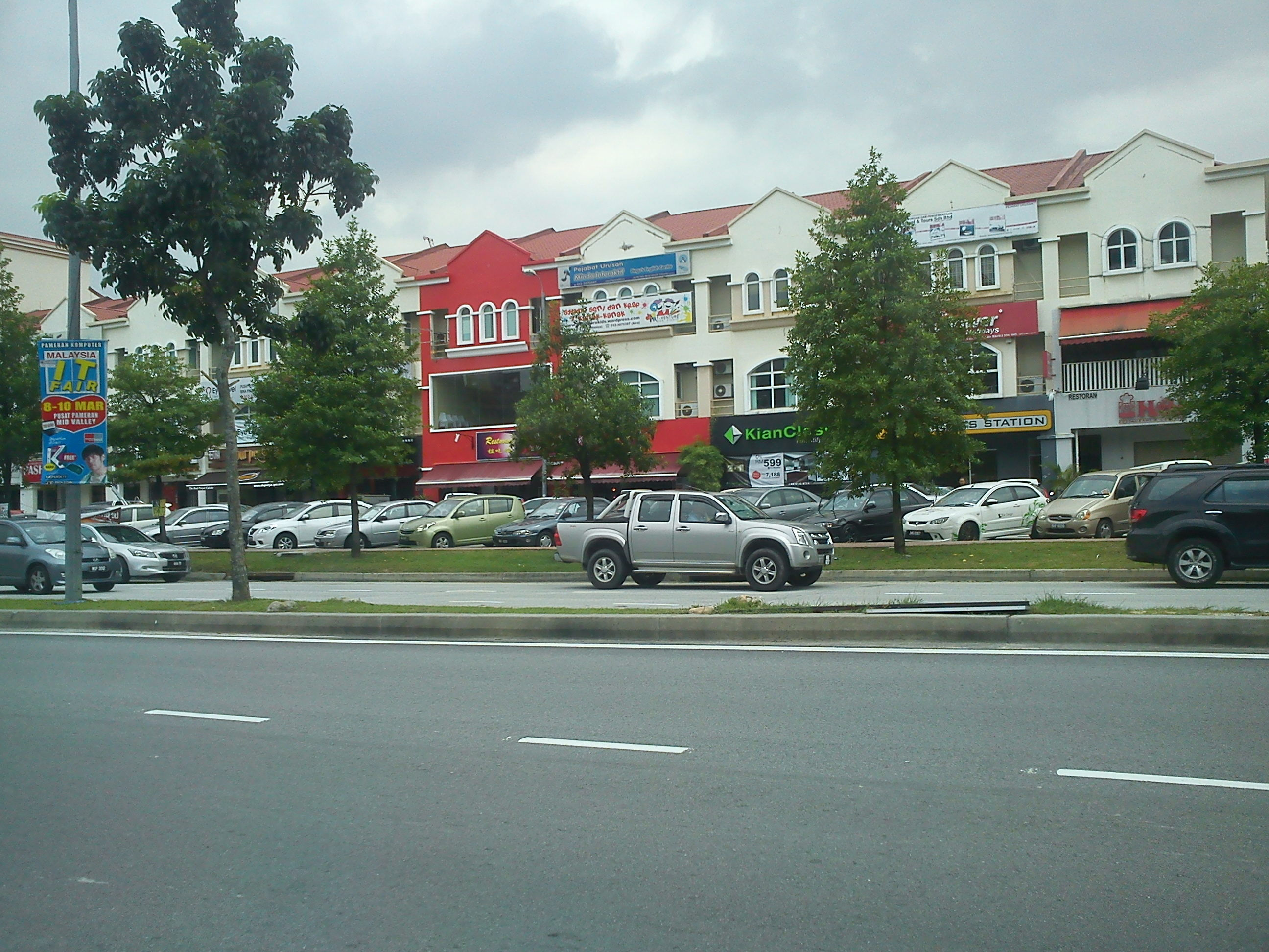 Jalan PJU 5/19 in the Dataran Sunway development in Kota Damansara, Petaling Jaya